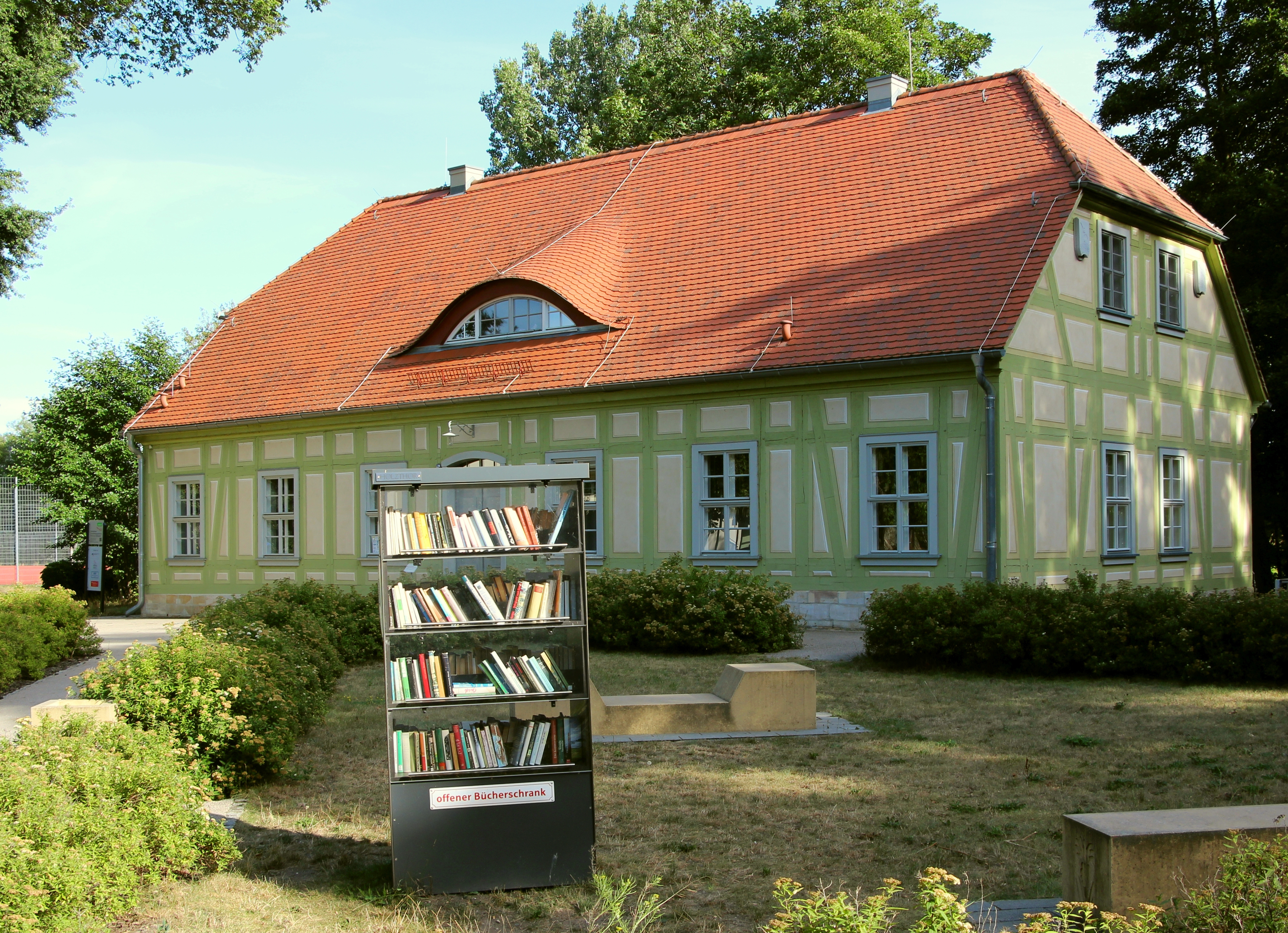 Public bookcases in Elsterwerda, Germany